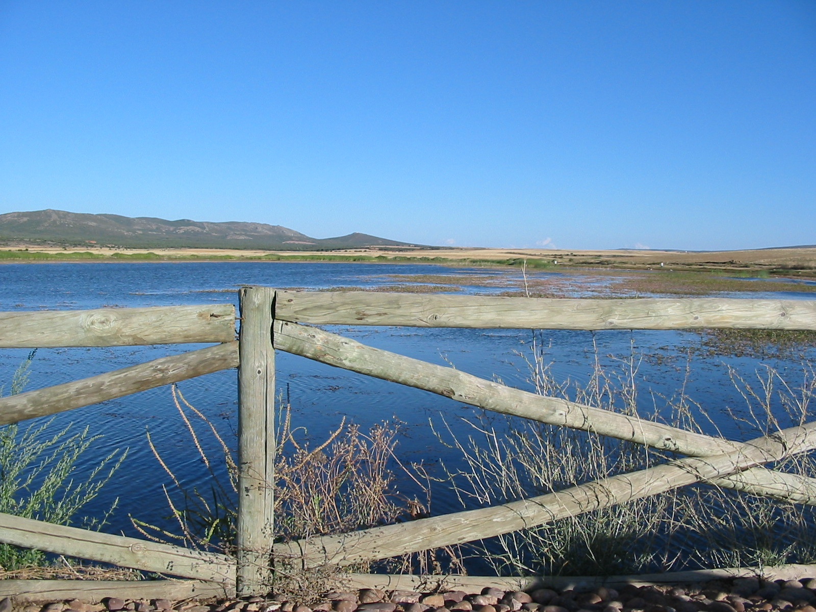 The poot at Setiles, Guadalajara, Spain.